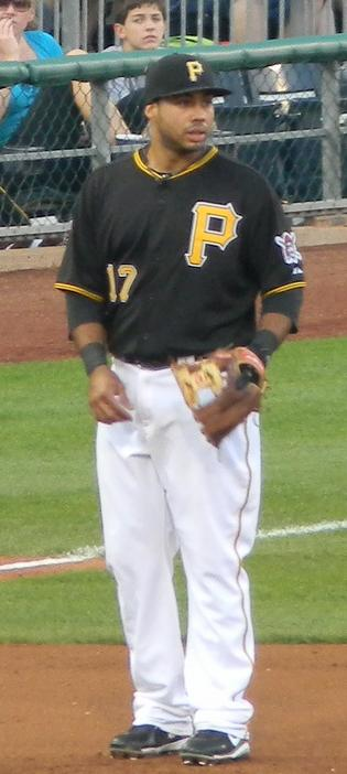 Pedro Alvarez of the Pittsburgh Pirates playing third base in his third MLB game.